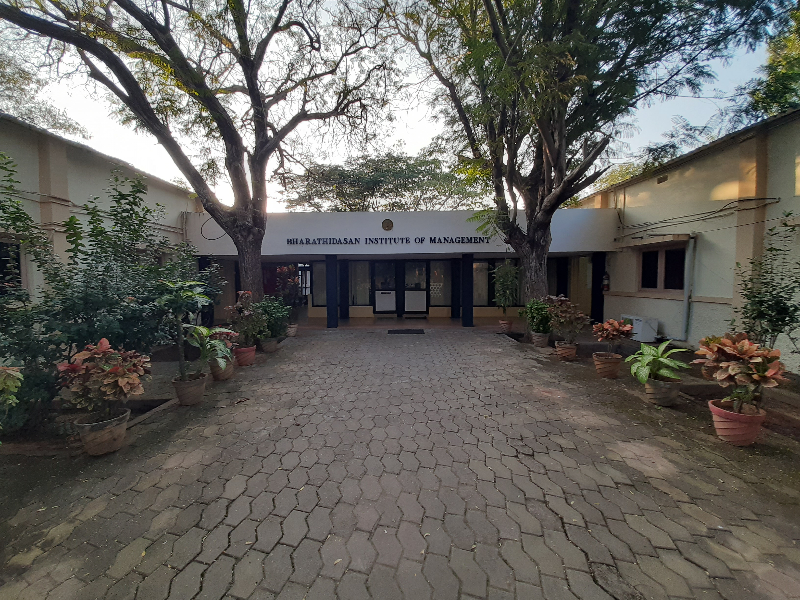 BIM Trichy Admin Building